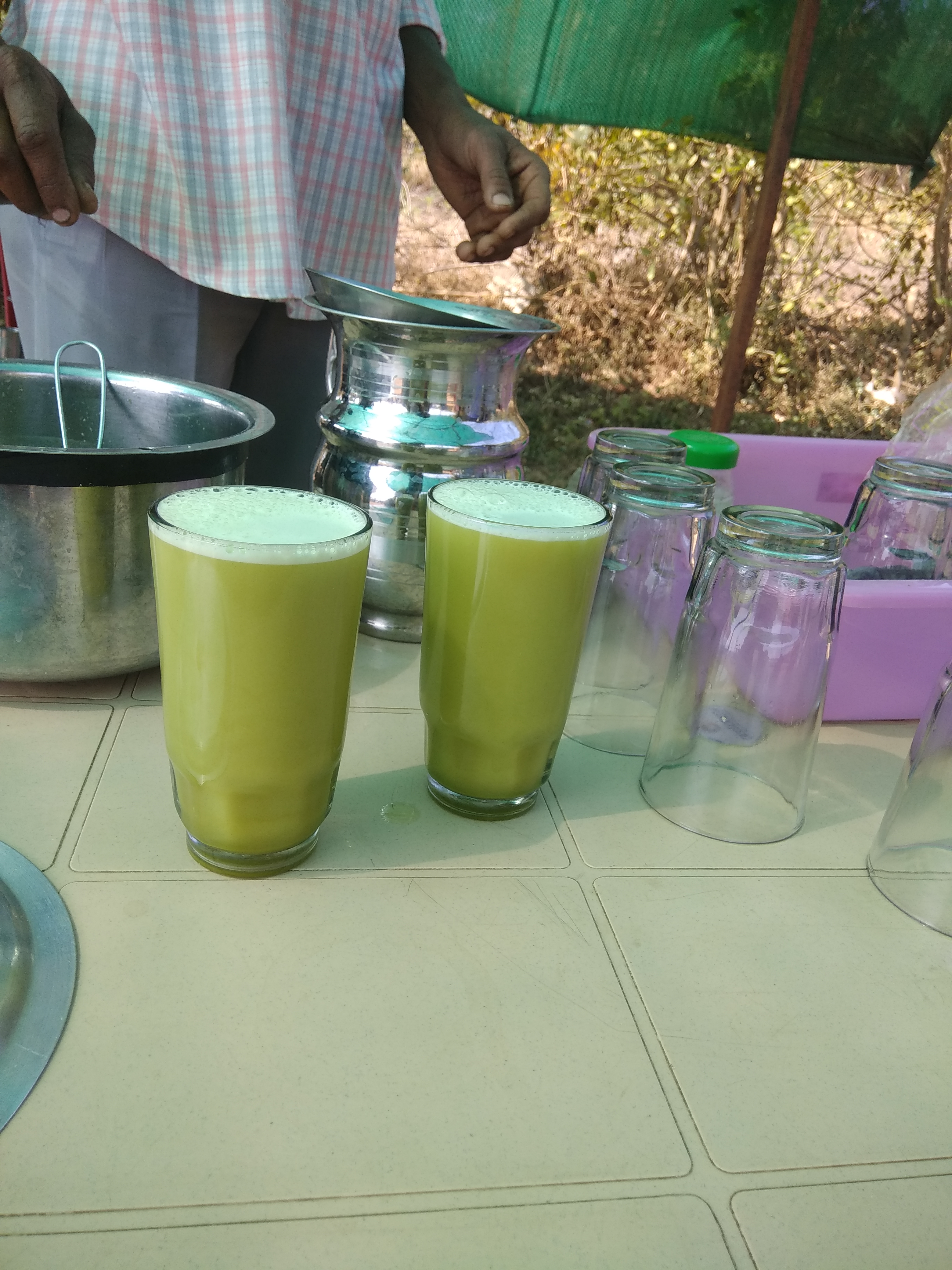 Sugarcane juice